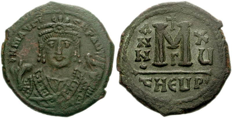 Follis showing Emperor Maurice in consular uniform. taken from